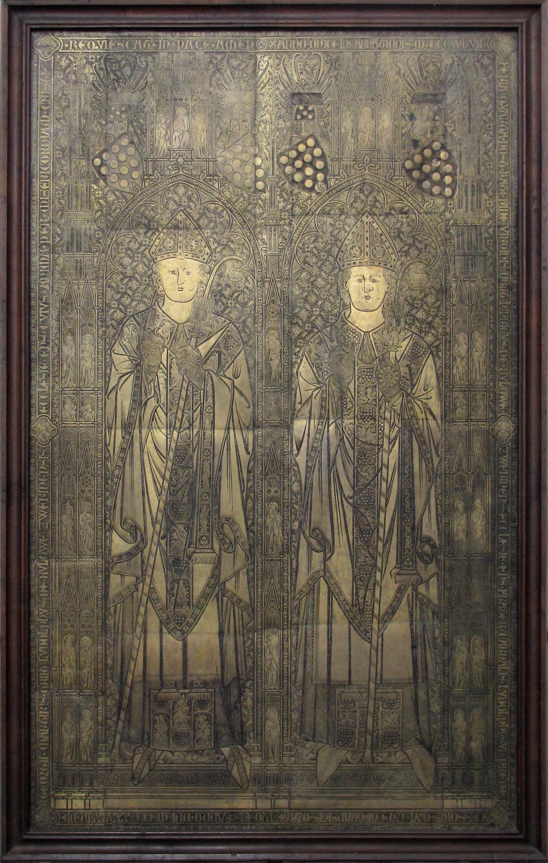 Monumental brass grave plate for bishops Ludolf (+ 1339) and Heinrich (+ 1347) von Bülow in Schwerin cathedral; 310 x 180 cm